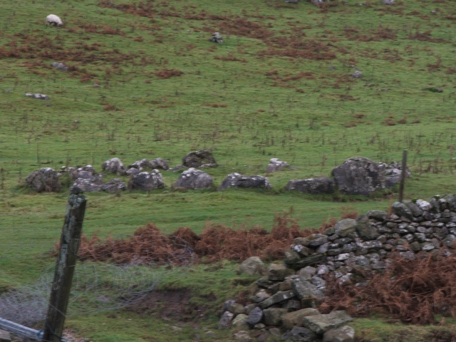 Yockenthwaite Stone Circle. Believed to be of Bronze Age date and current thinking is that the stones once formed the kerb of a burial cairn.